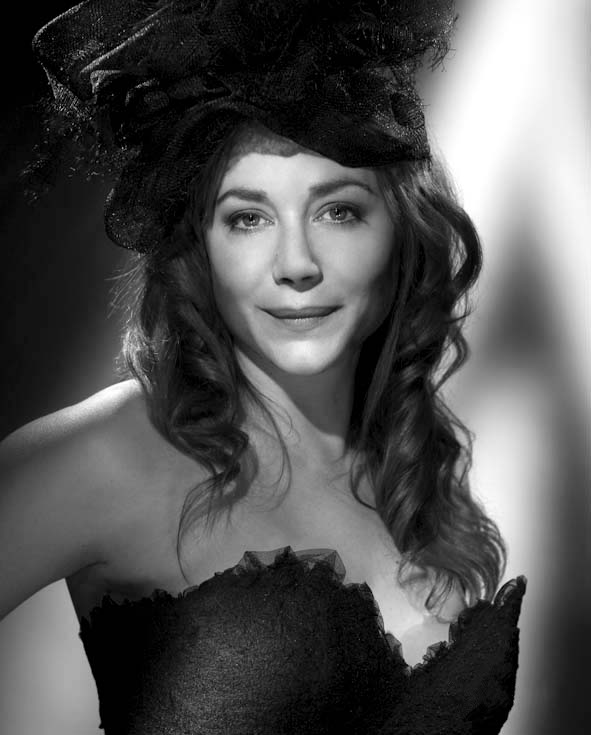 Julie Depardieu photographed by Studio Harcourt Paris